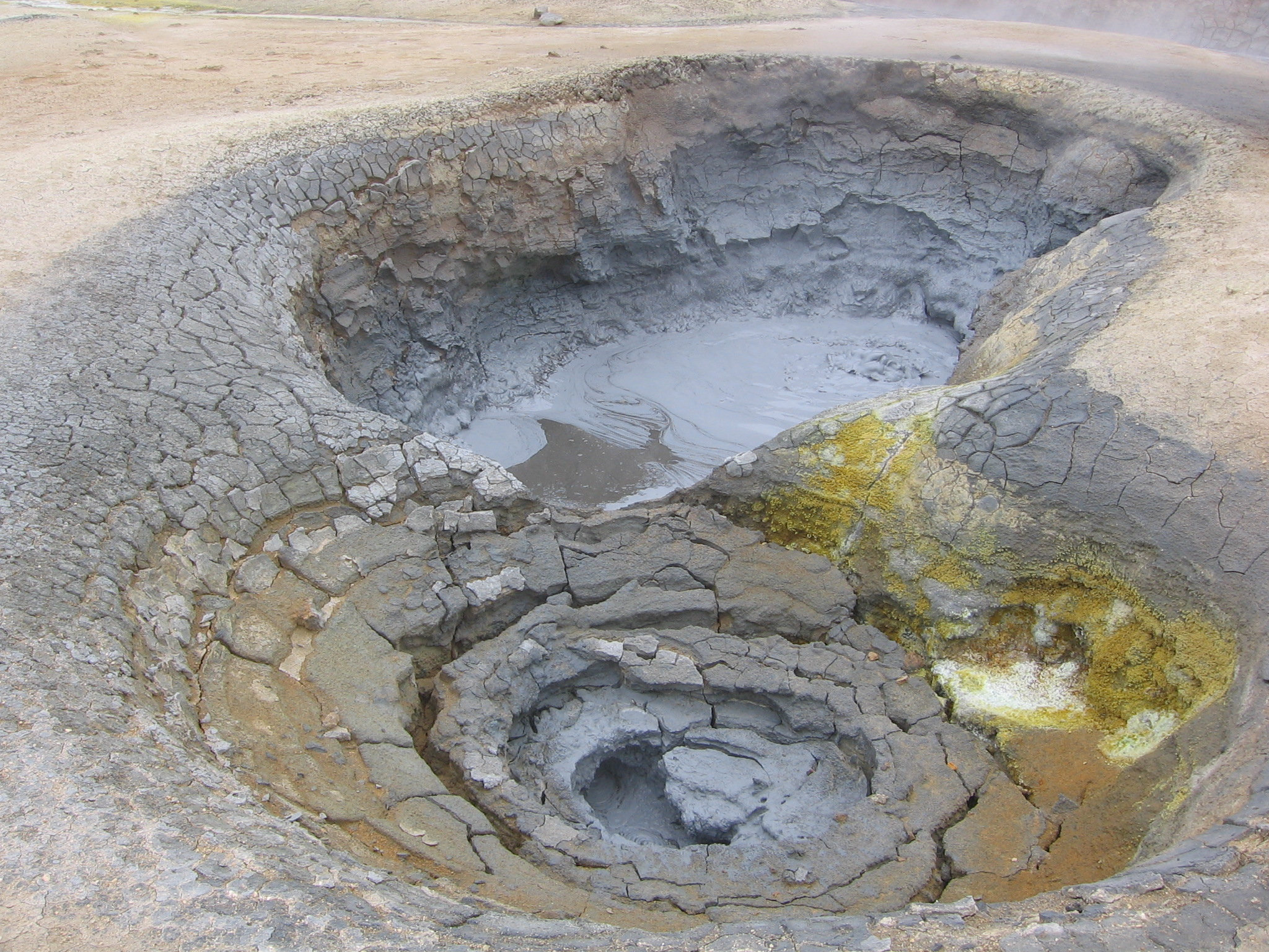 Mud pot near the volcano Krafla in Iceland